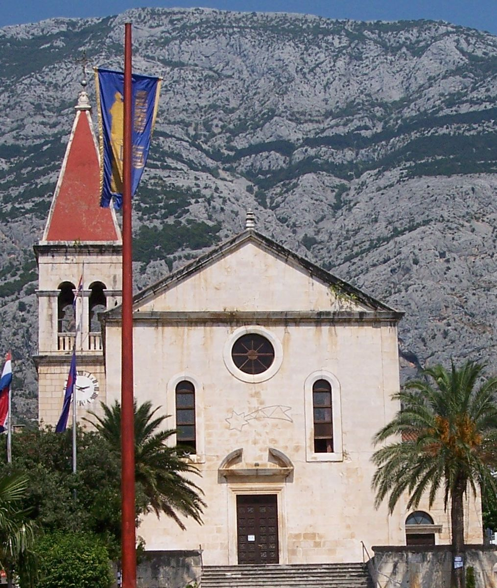 Makarska .